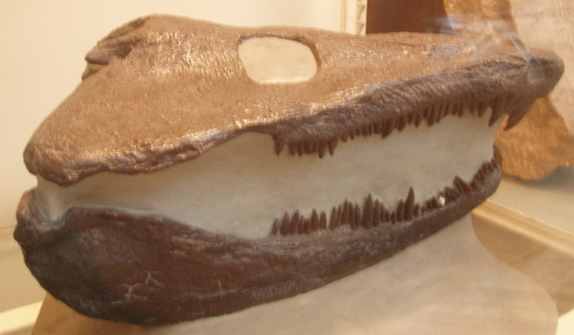 Skull of Cricotus, an embolomere.